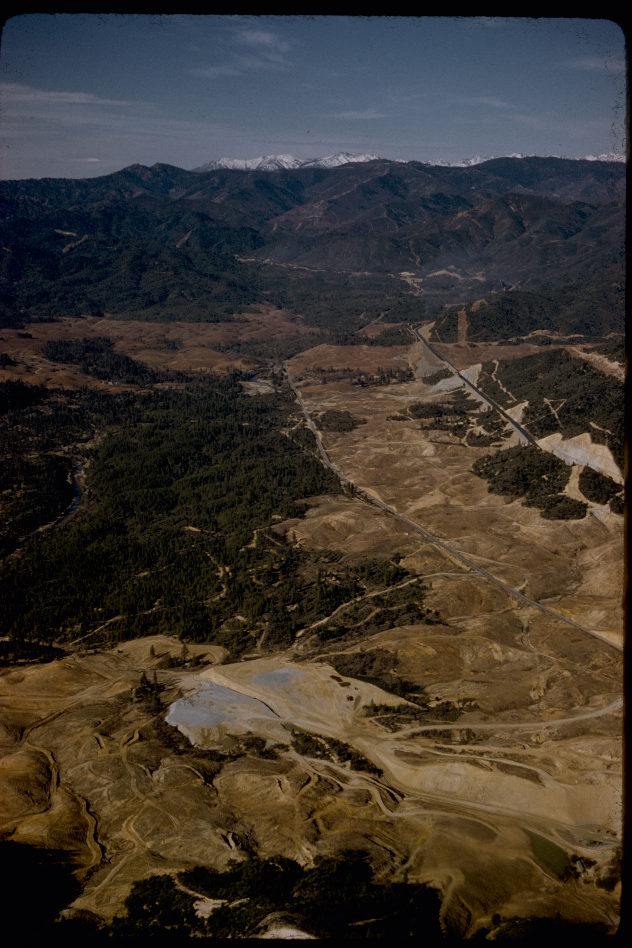 Whiskeytown is an all season park with year round recreation. Winter storms leave snow at the higher elevations, but sunny winter days provide opportunities for horseback riding, hiking and mountain biking at the lower elevations. Spring brings excellent opportunities for wildflower viewing and birding.